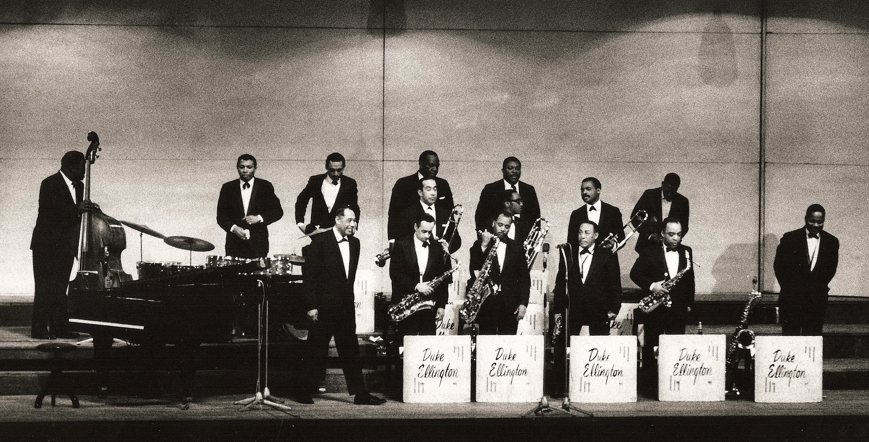 Duke Ellington Big Band, Munich 1963